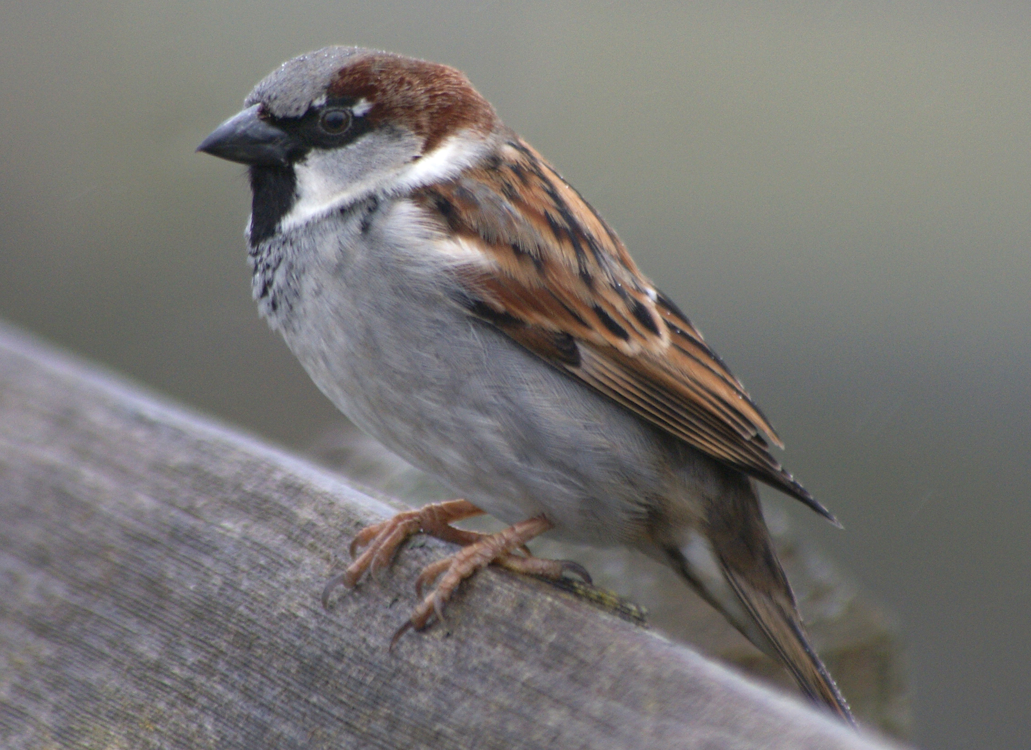 A male House Sparrow in British Columbia , Canada.